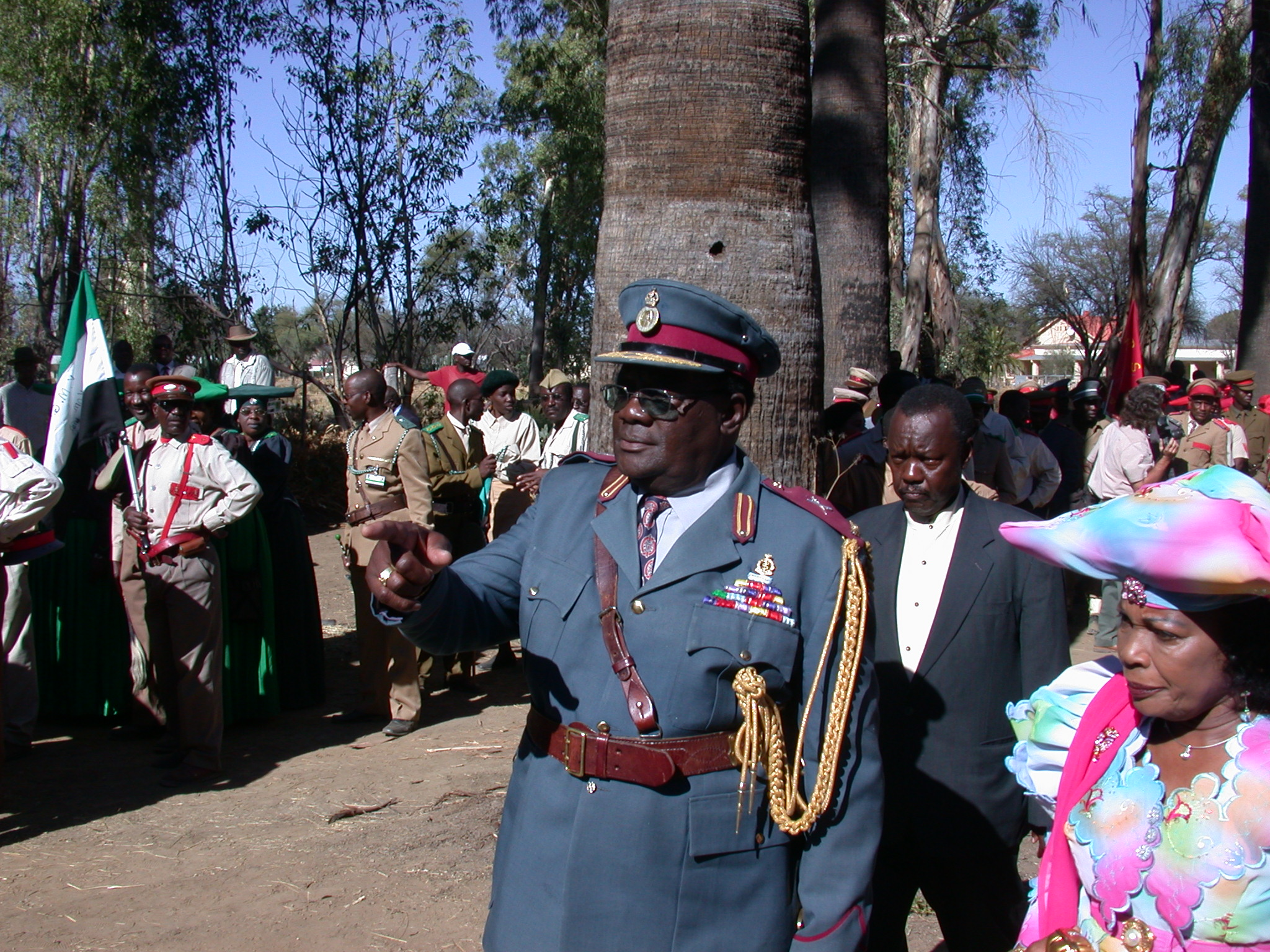 Portrait of Herero leader Riruao (at Hererotag)